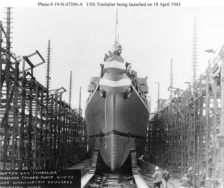 The launch of United States Navy seaplane tender USS Timbalier (AVP-54) at Lake Washington Shipyard, Houghton, Washington